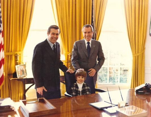 President Richard Nixon and Counselor to the President Donald Rumsfeld pose with Rumsfeld's son, Nick, in the Oval Office. It was Rumsfeld's last day in Washington, D.C. before he left for Brussels to be the U.S. ambassador to NATO.